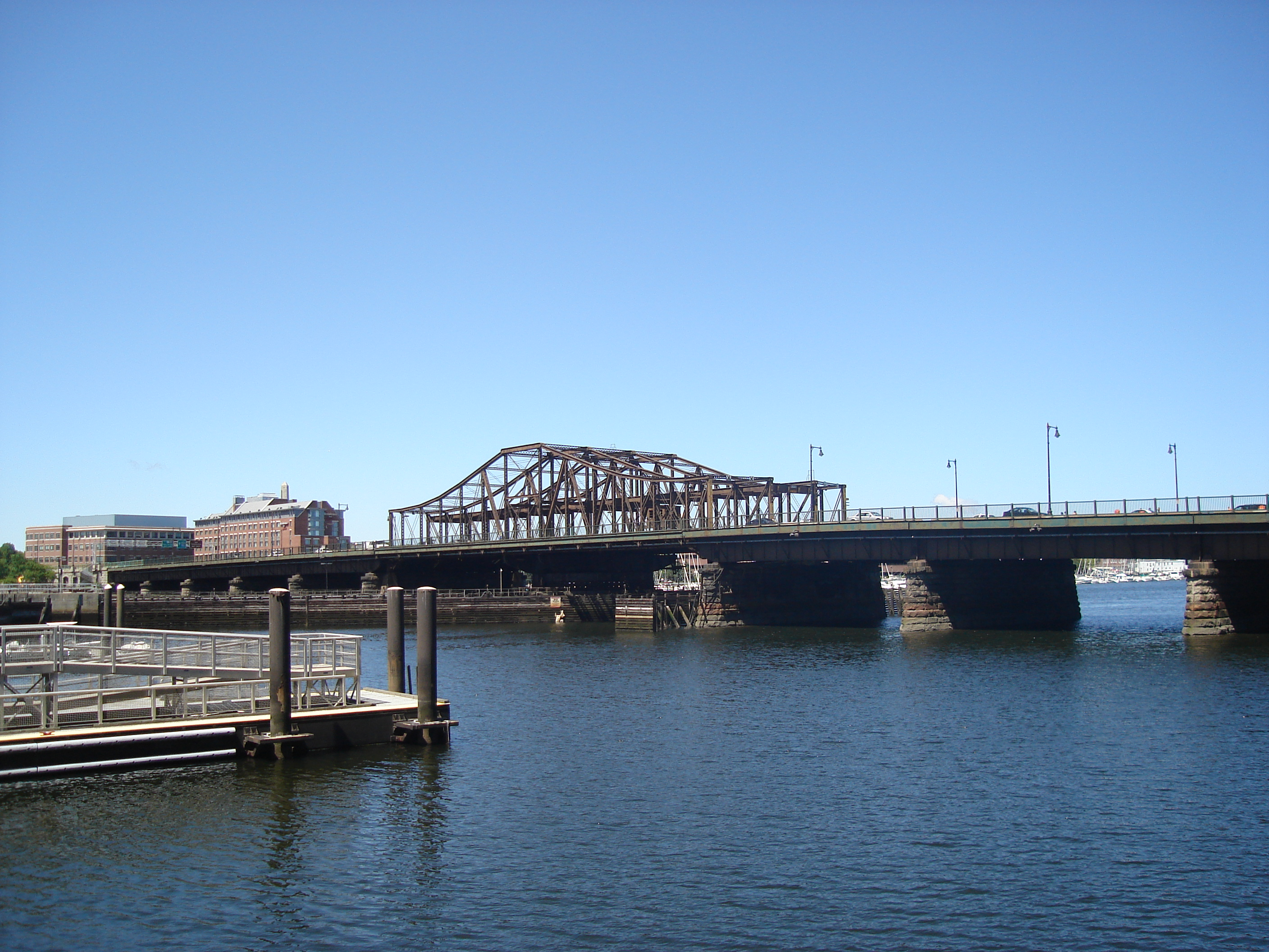 Charlestown Bridge in Boston, Massachusetts was built in 1900.